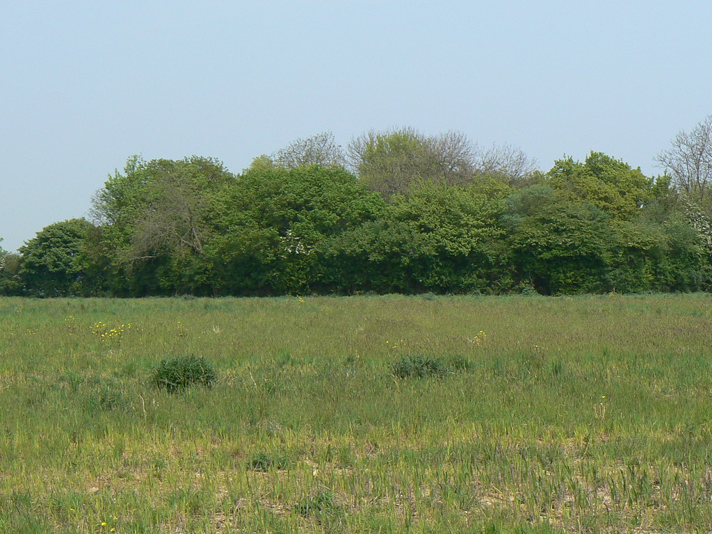 Green guardians - Great Ashfield Castle